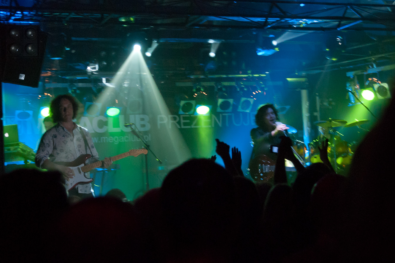 Taking of this photo was in cooperation with Rock-Serwis Publishing House (homepage) Anathema podczas trasy koncertowej w Polsce 6 października 2012 w Mega Clubie w Katowicach